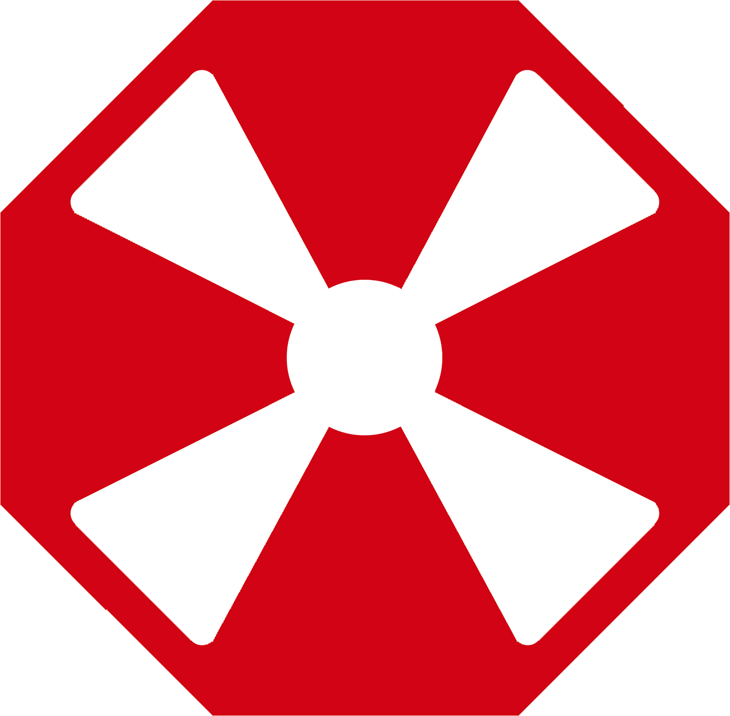 Eighth Army Shoulder Sleeve Insignia